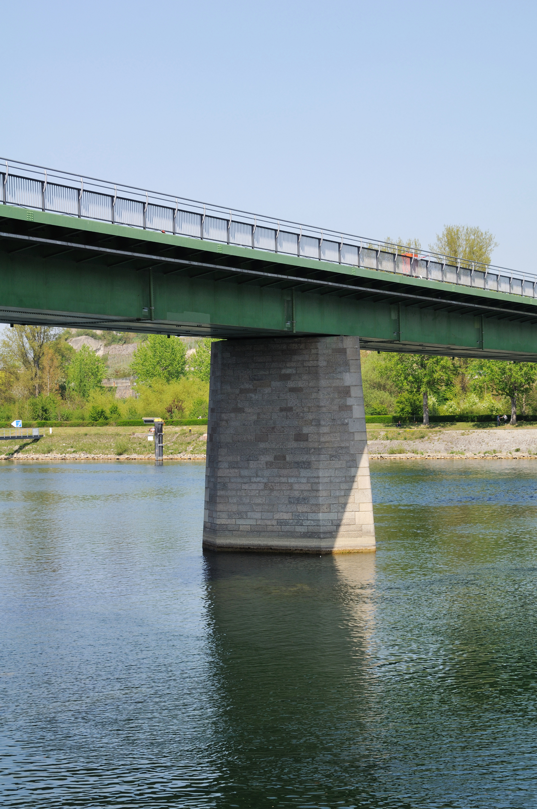 Pile of the Bridge over the river Rhine at Breisach